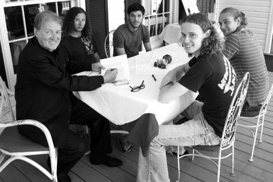 Blackbird signs a management contract with Alan Walden.